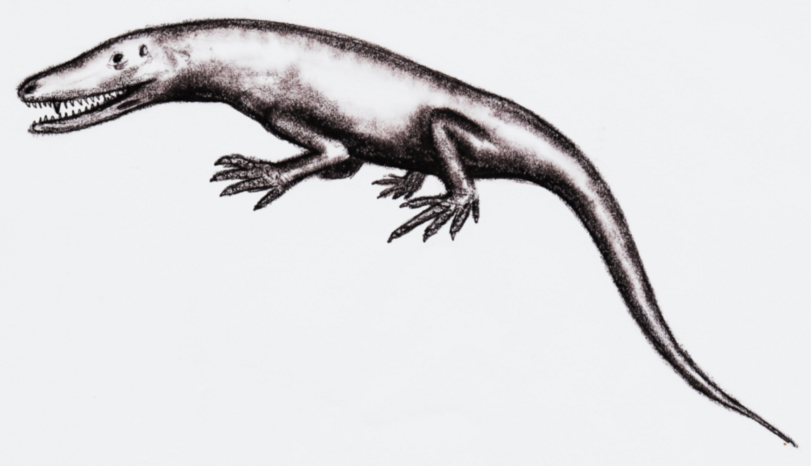 life reconstruction of Varanosaurus